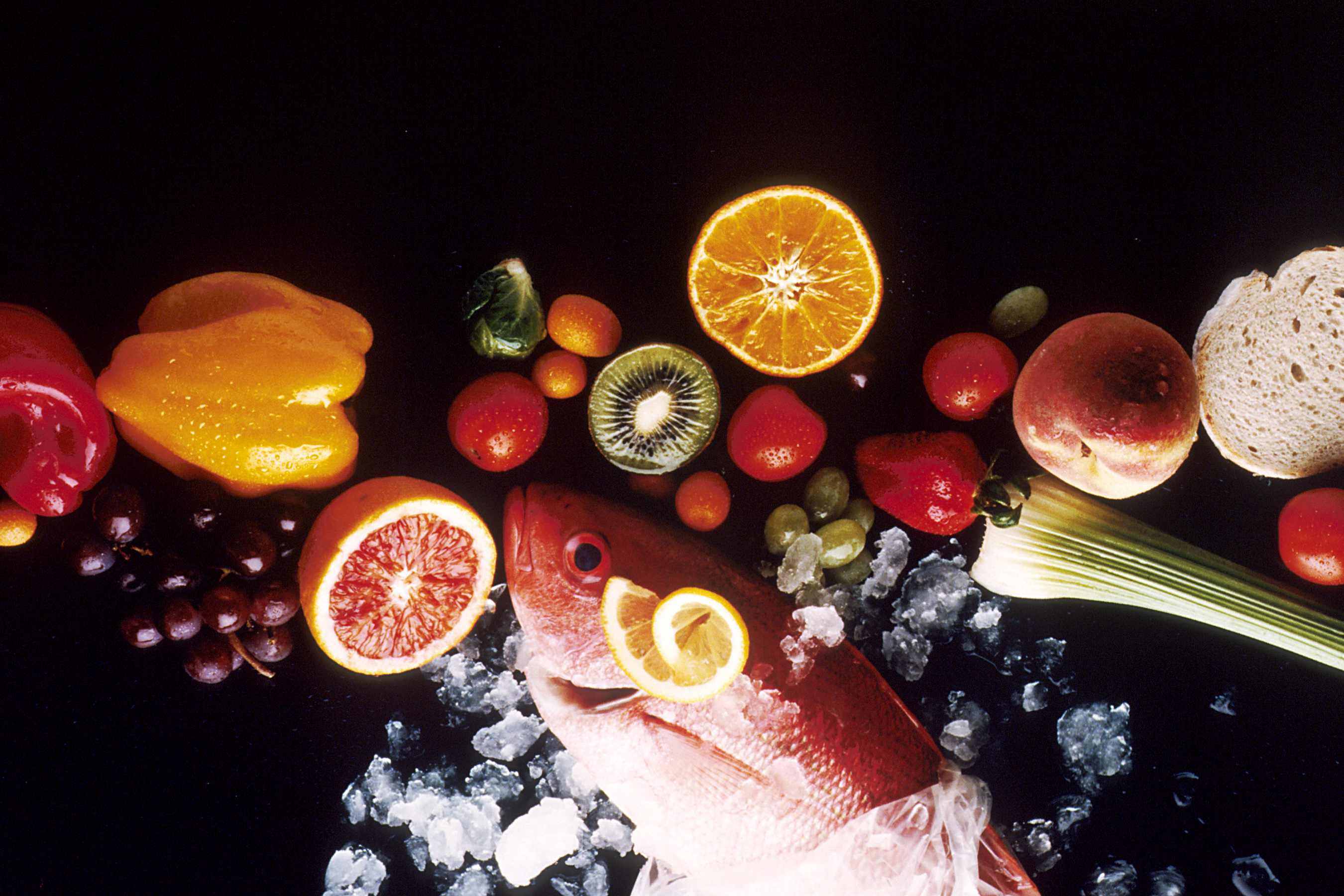 Title Healthy Food Description This is an image of healthy foods, including fruit, vegetables, fish and bread with a black background. Topics/Categories Food and Drink Type Color, Photo Source National Cancer Institute